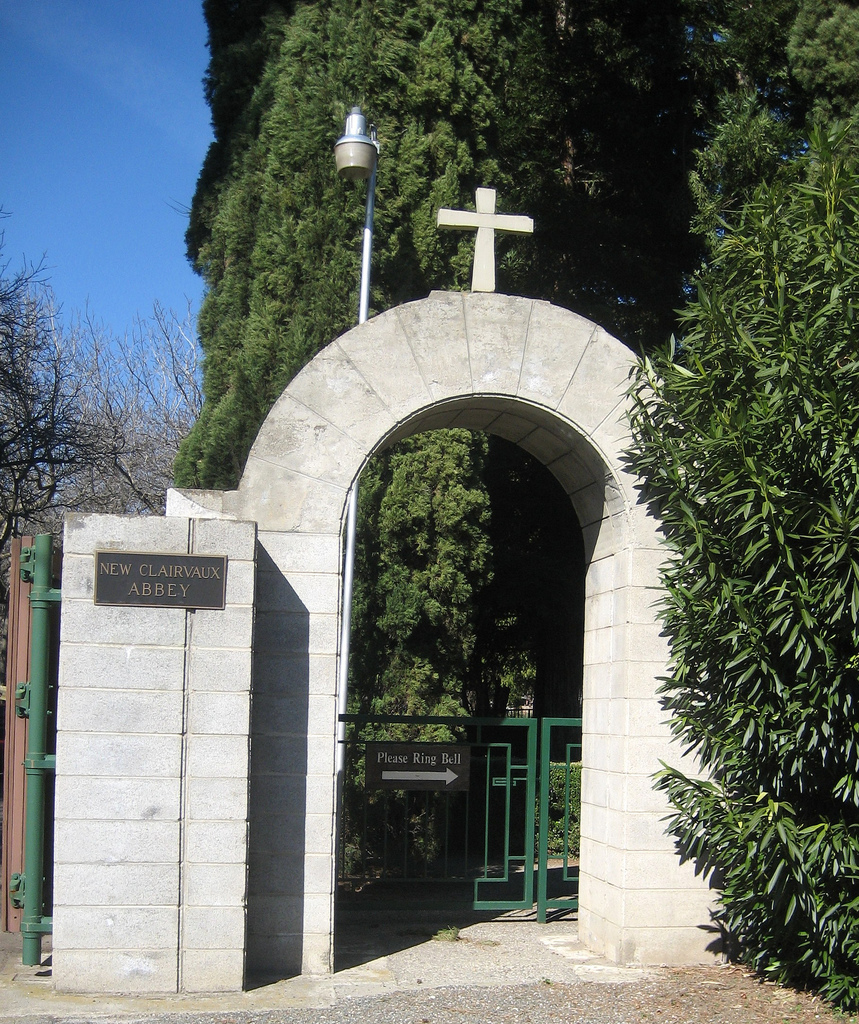 The gate of New Clairvaux Abbey in Vina, California.